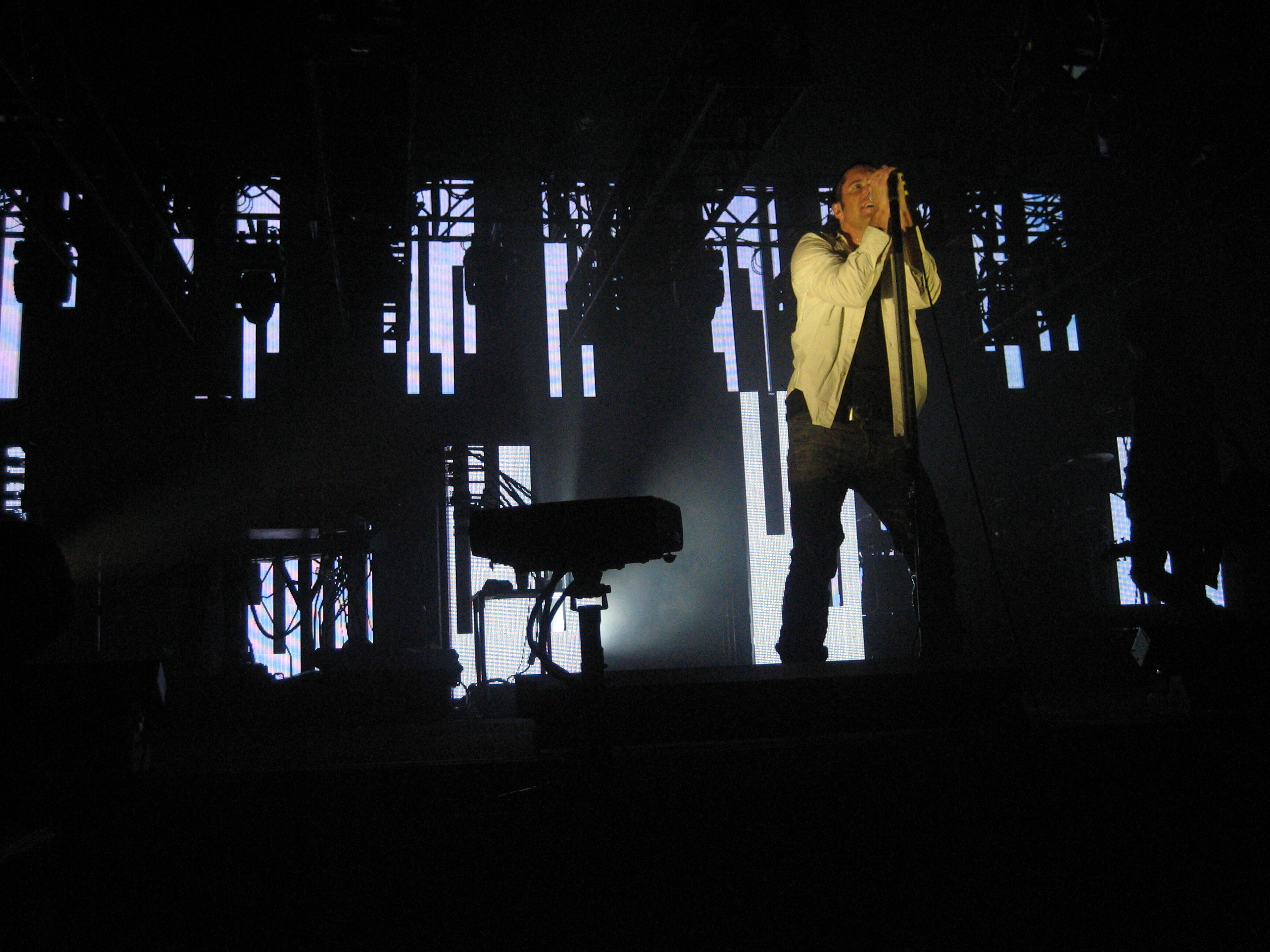 Nine Inch Nails: Live With Teeth in Moline IL